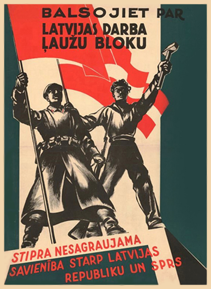 Latvia. Poster. 1940. Vote for the Workers' Block.